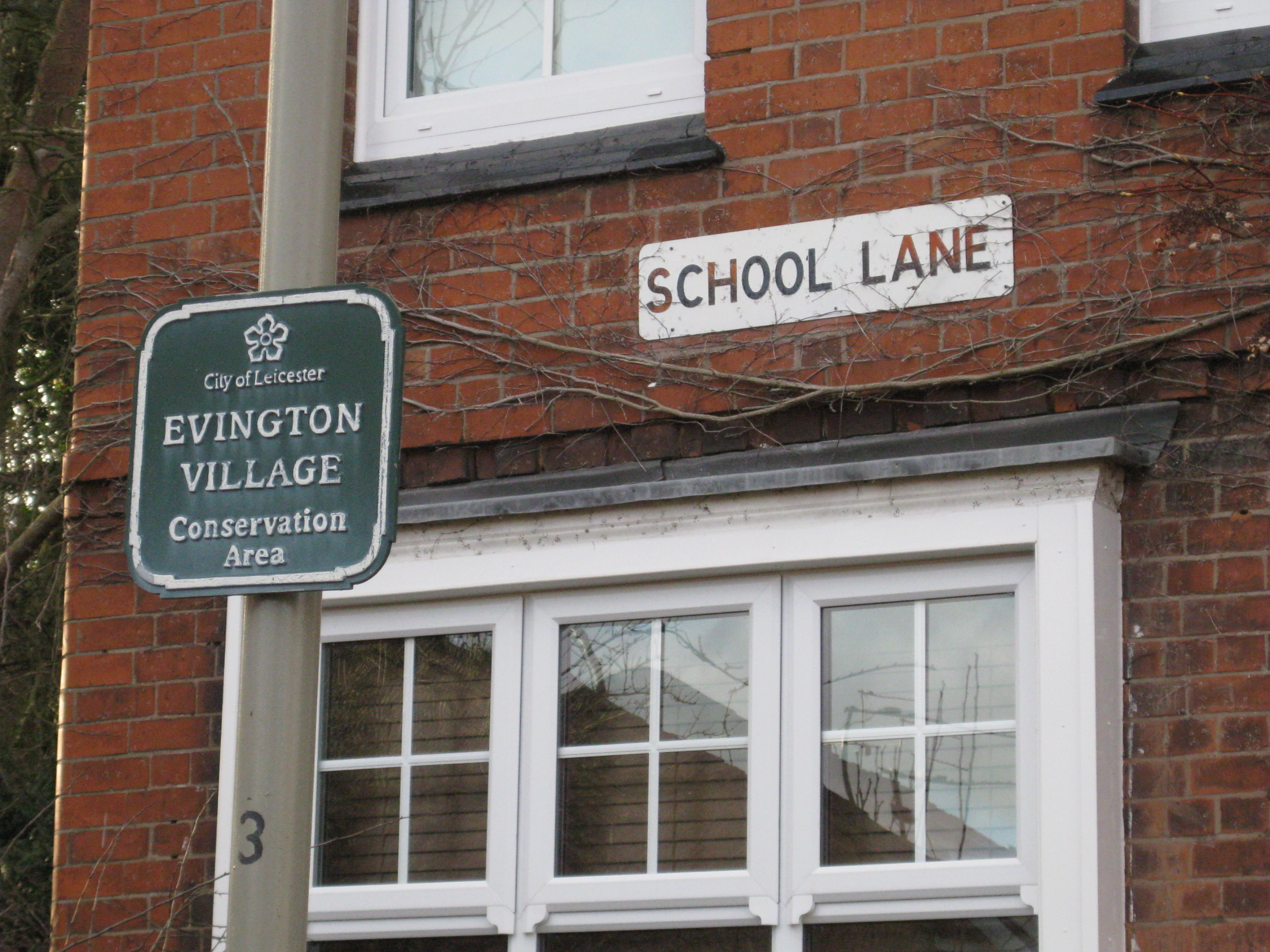 School Lane, Evington, Leicester L5. showing Conservation Area sign.